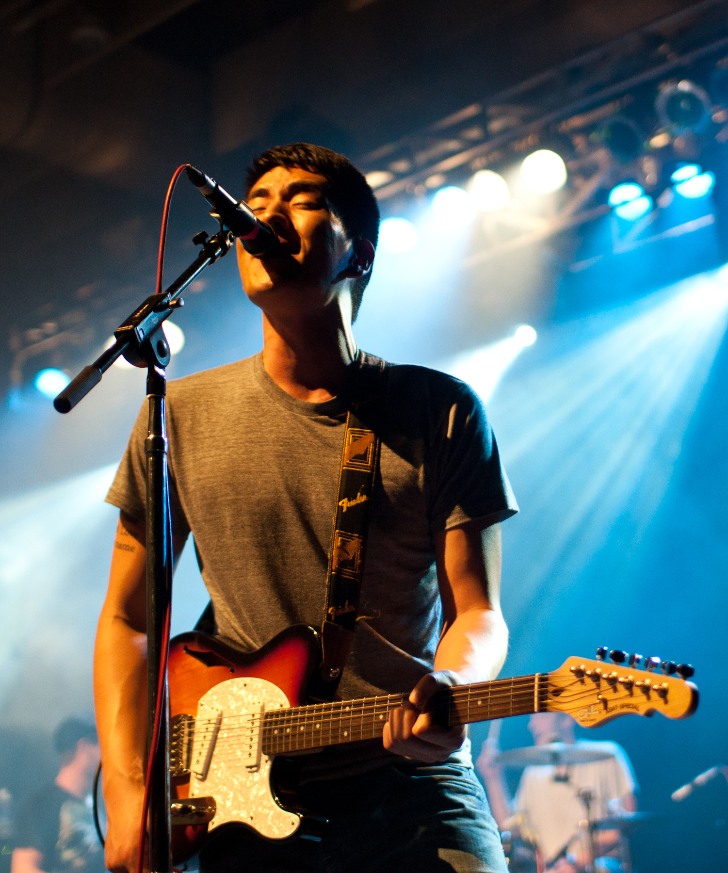 Daphne Loves Derby playing at Rockin' Roosevelt at the University of California - San Diego